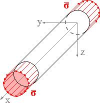 stretching